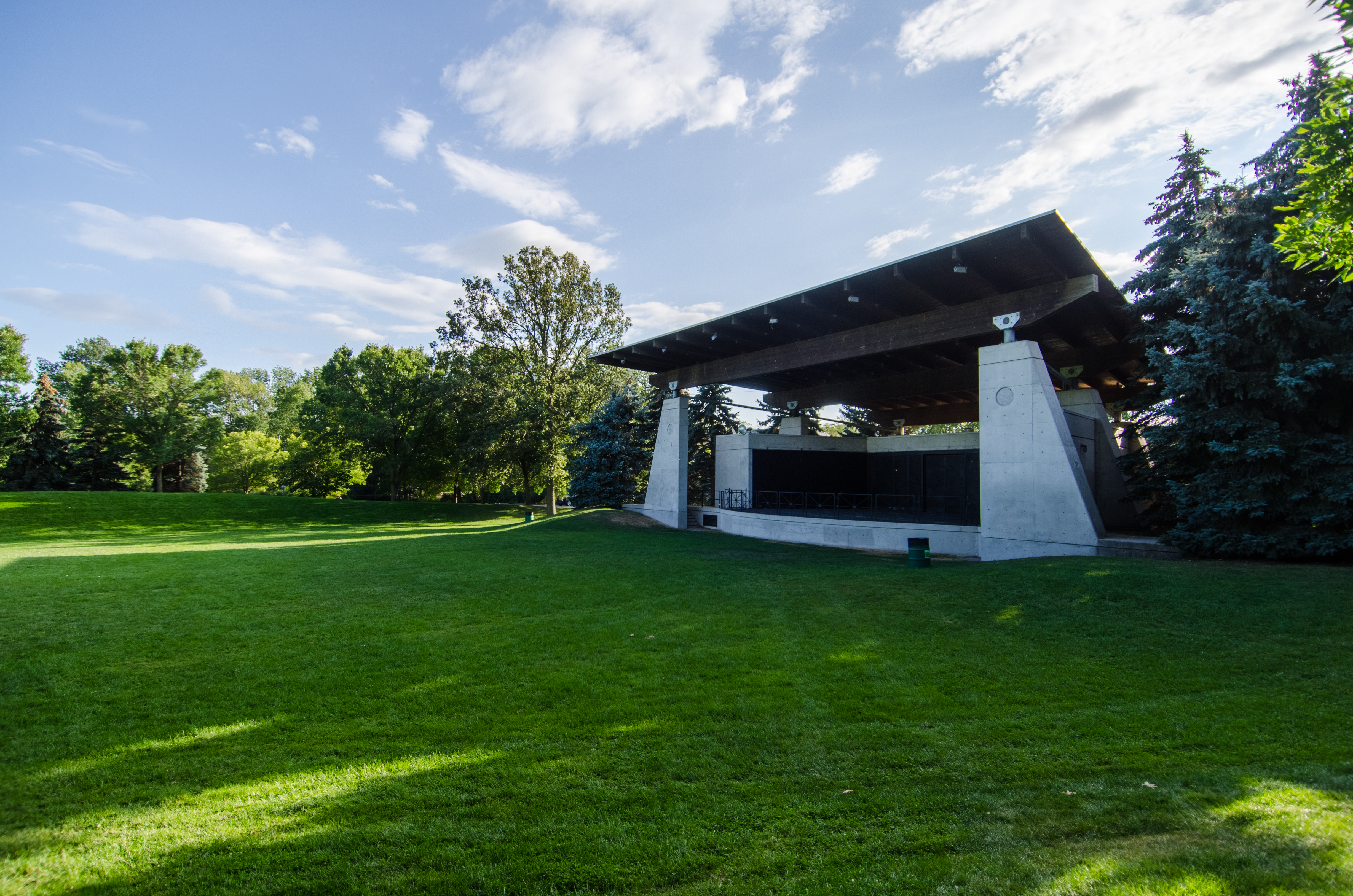 Seen in The Handmaid's Tale episodes #101 & 110.